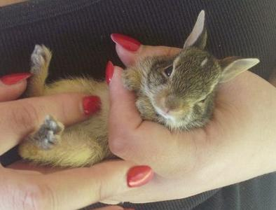 Picture of an immature eastern cottontail rabbit, caught in Rogers County, OK.